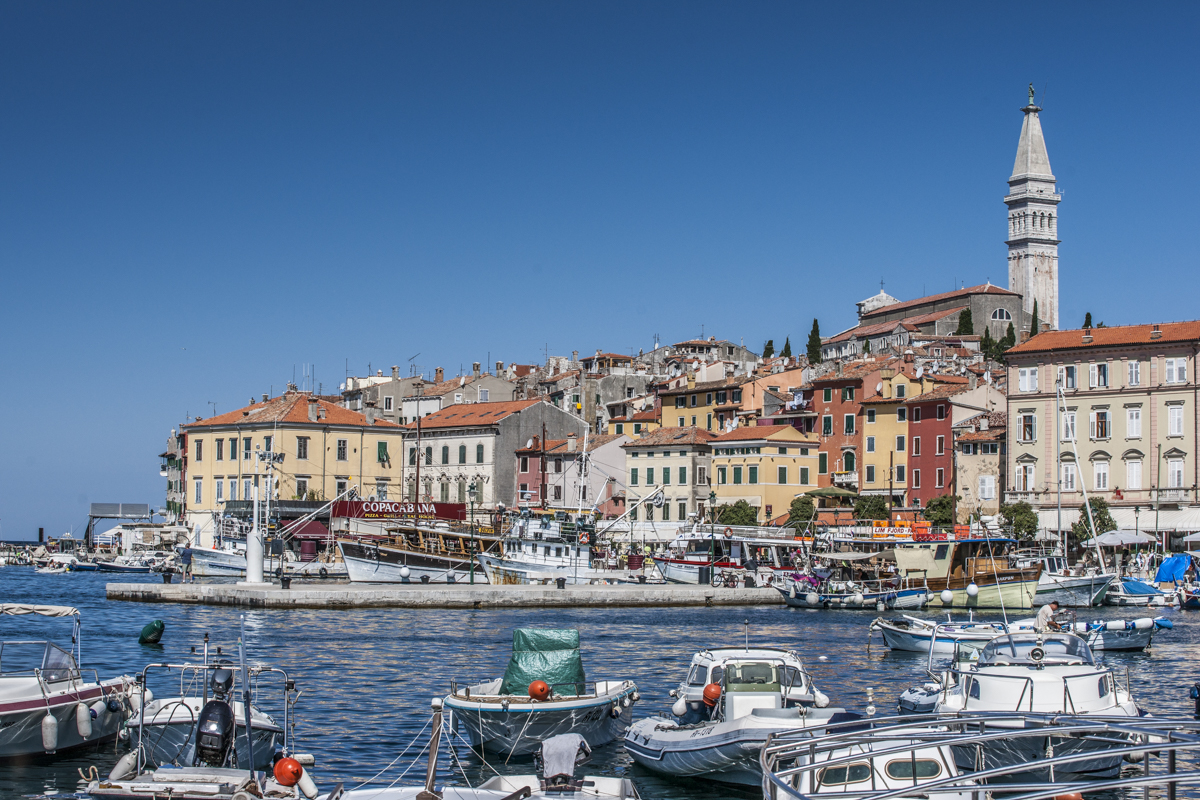 Rovinj, Croatia